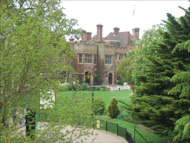 Burnt Stub Mansion. The original manor house on the Chessington World of Adventures site (since before Chessington Zoo was built) this now houses "Hocus Pocus Hall", a hall of optical illusions.